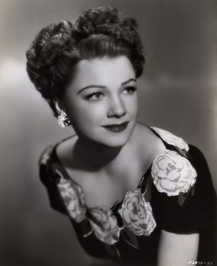 Promotional photograph of actor Anne Baxter (1940s)